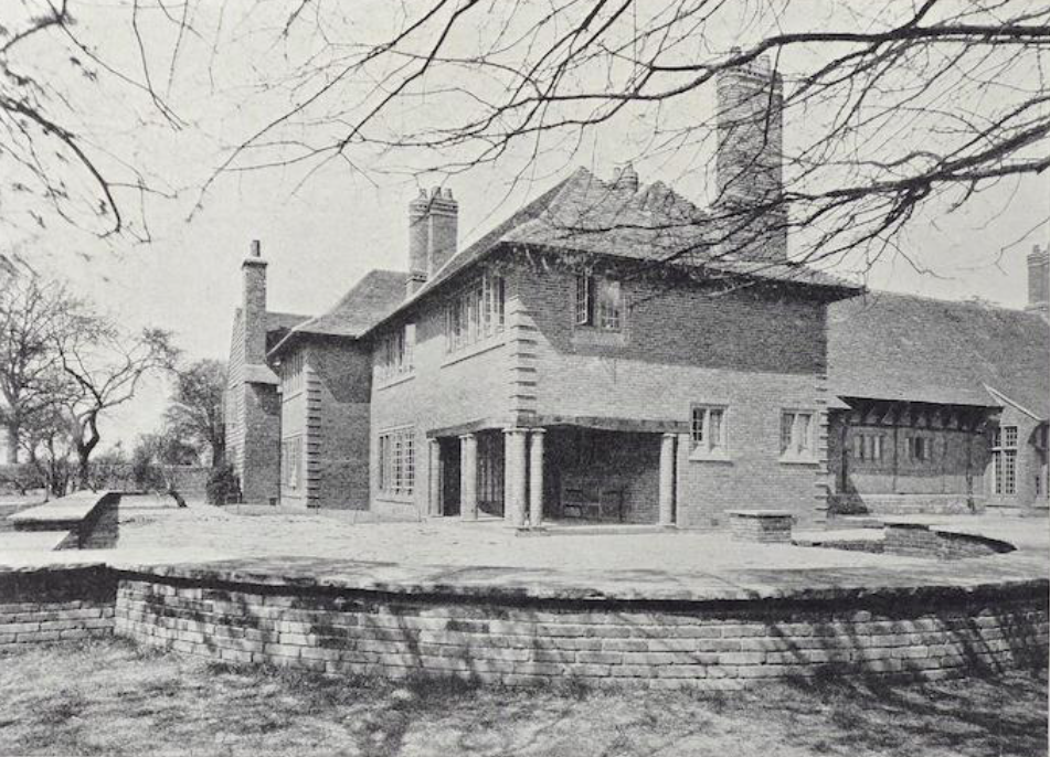 Little Pednor, Chesham by James Edwin Forbes and John Duncan Tate. From The Studio Yearbook of Decorative Art 1913